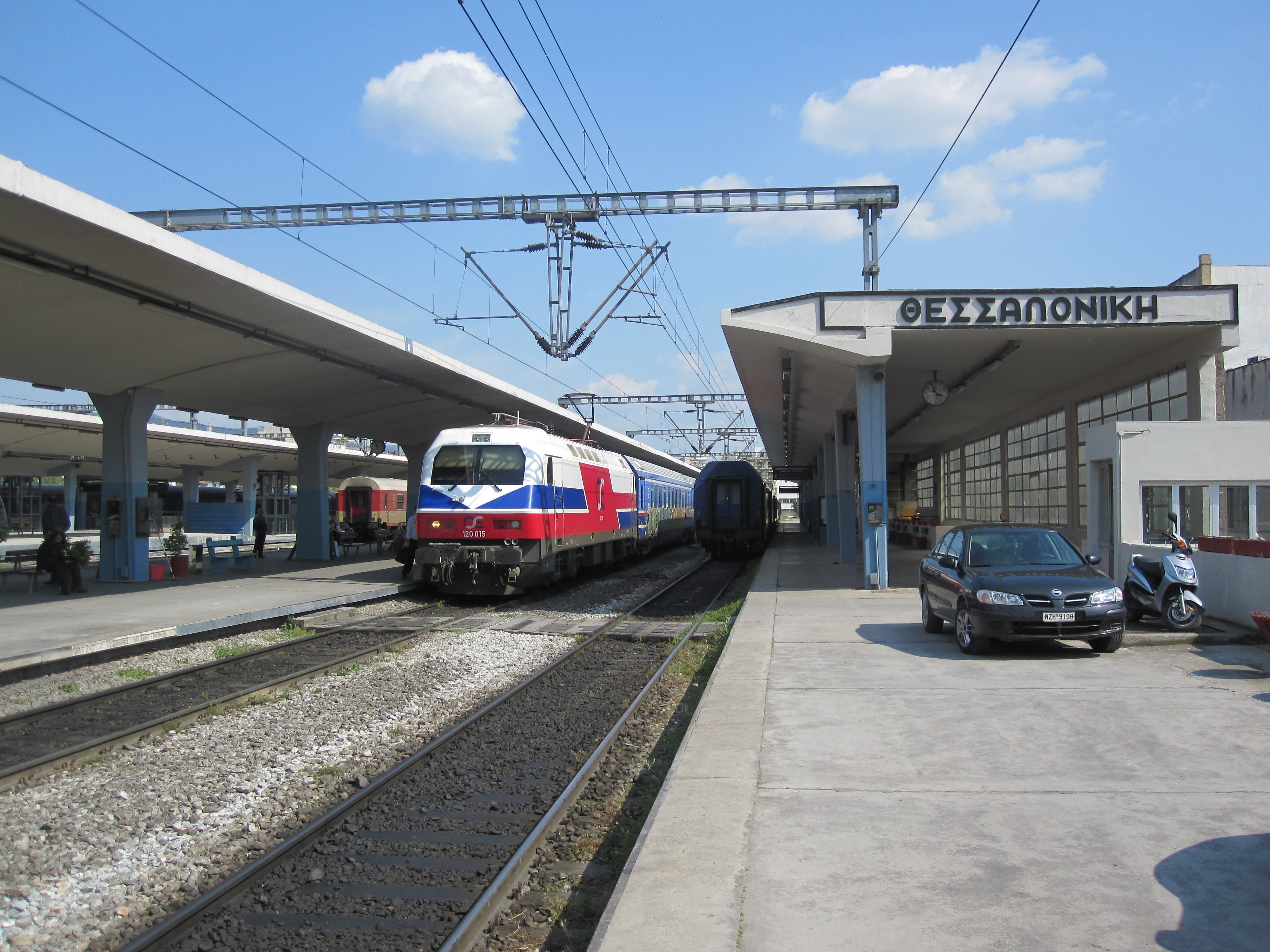 Siemens built electric class 120 (formerly class H561) is seen at Thessaloníki heading train 334, 17:05 Thessaloníki to Beograd. With the service cutbacks at the start of 2011, this train now only operates between Skopje and Beograd